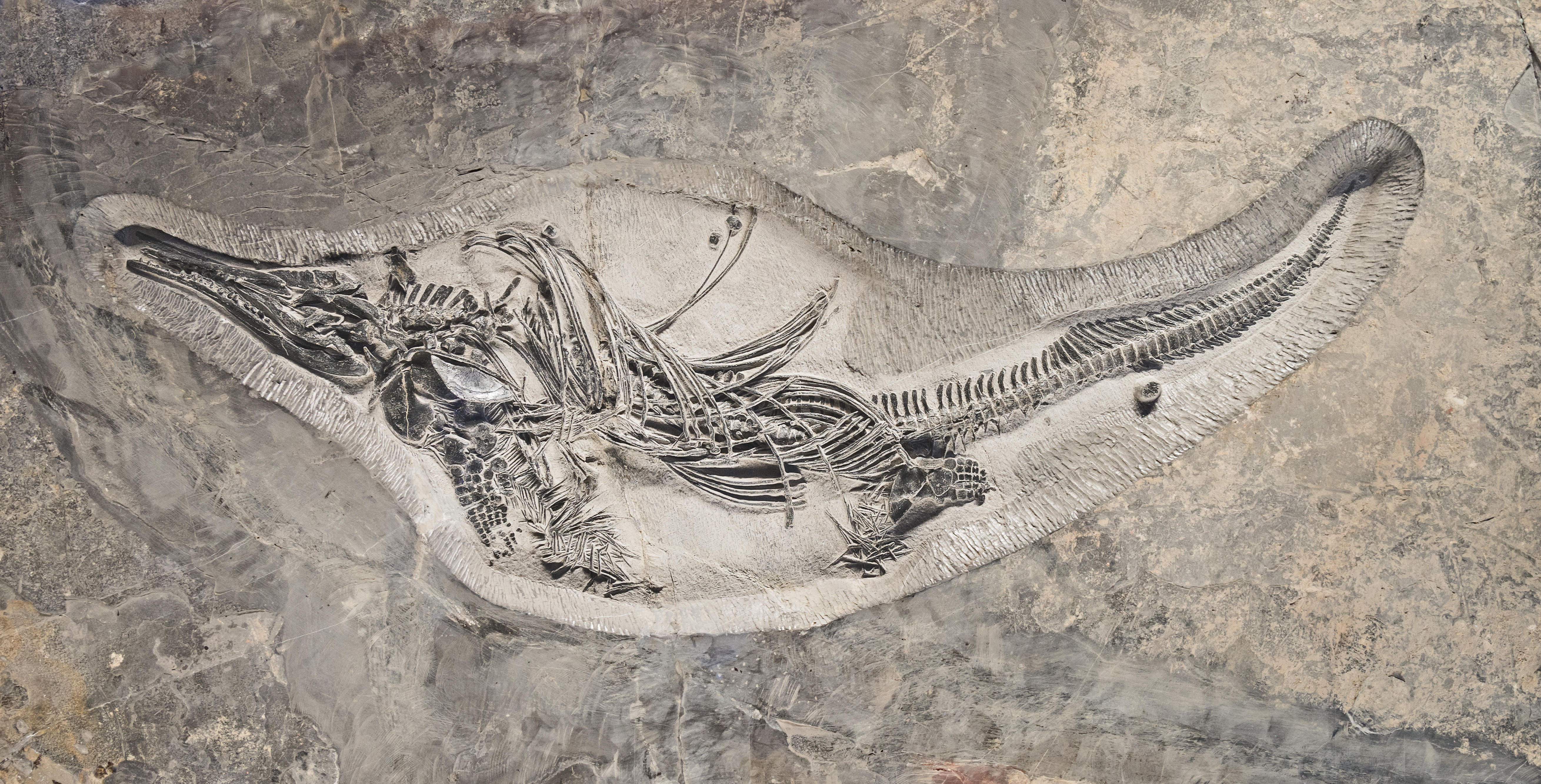 Barracudasauroides panxianensis Stage : Anisian from 247.2 million years ago until ~242 million years ago. Size and weight : 118x62x545 cm – 79.4 Kg